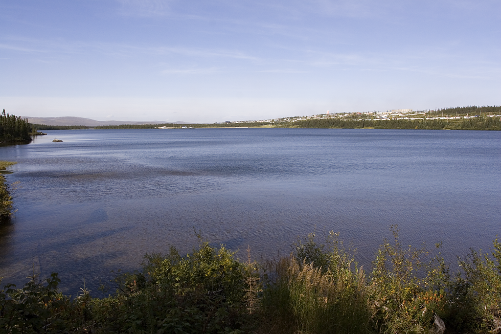 Image of Wabush, NL, Canada early fall. Author: Dan Fleet 23:49, 8 February 2007 (UTC) Source: Self-produced digital photograph